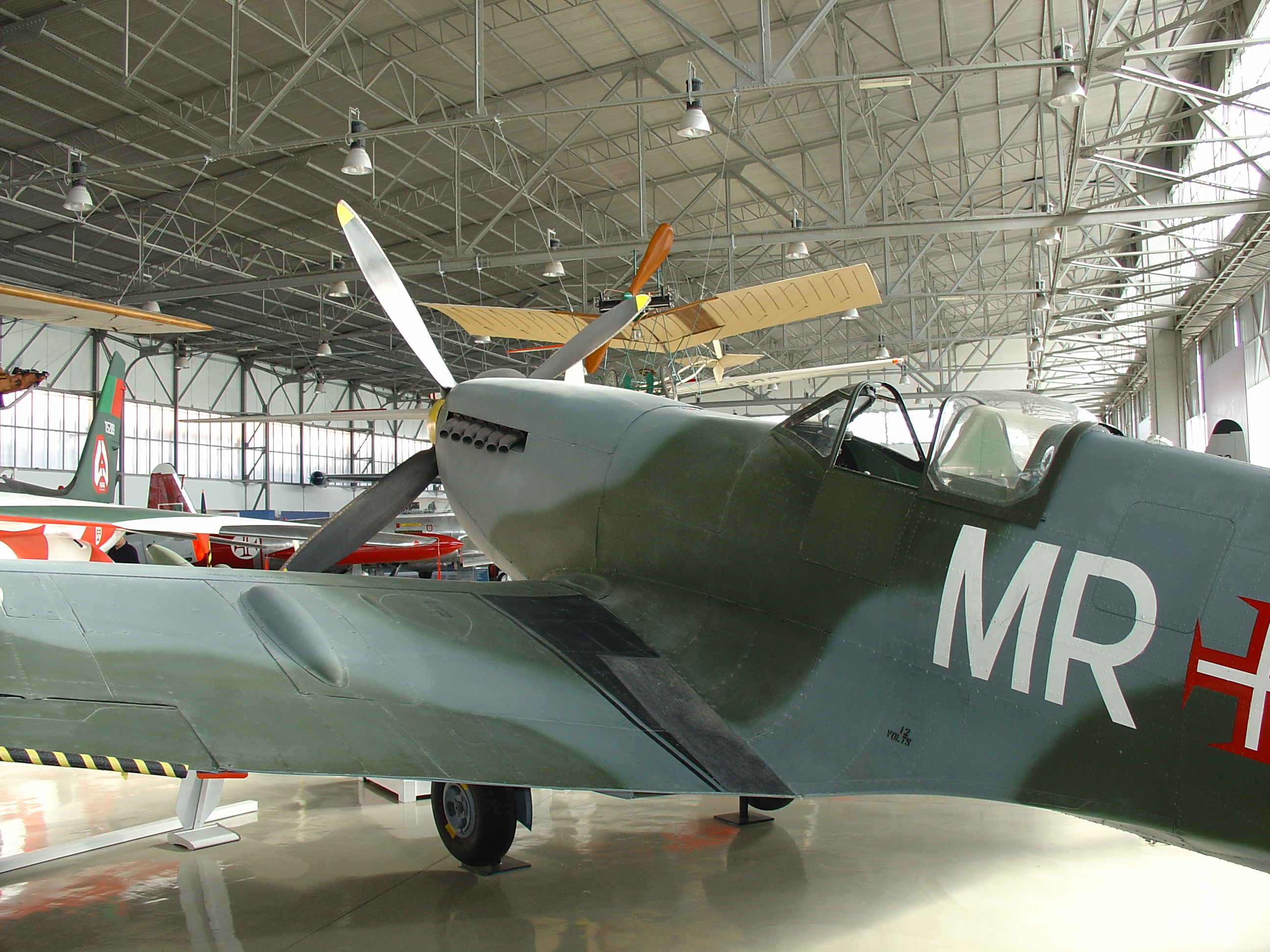 Supermarine Spitfire in the Museu do Ar